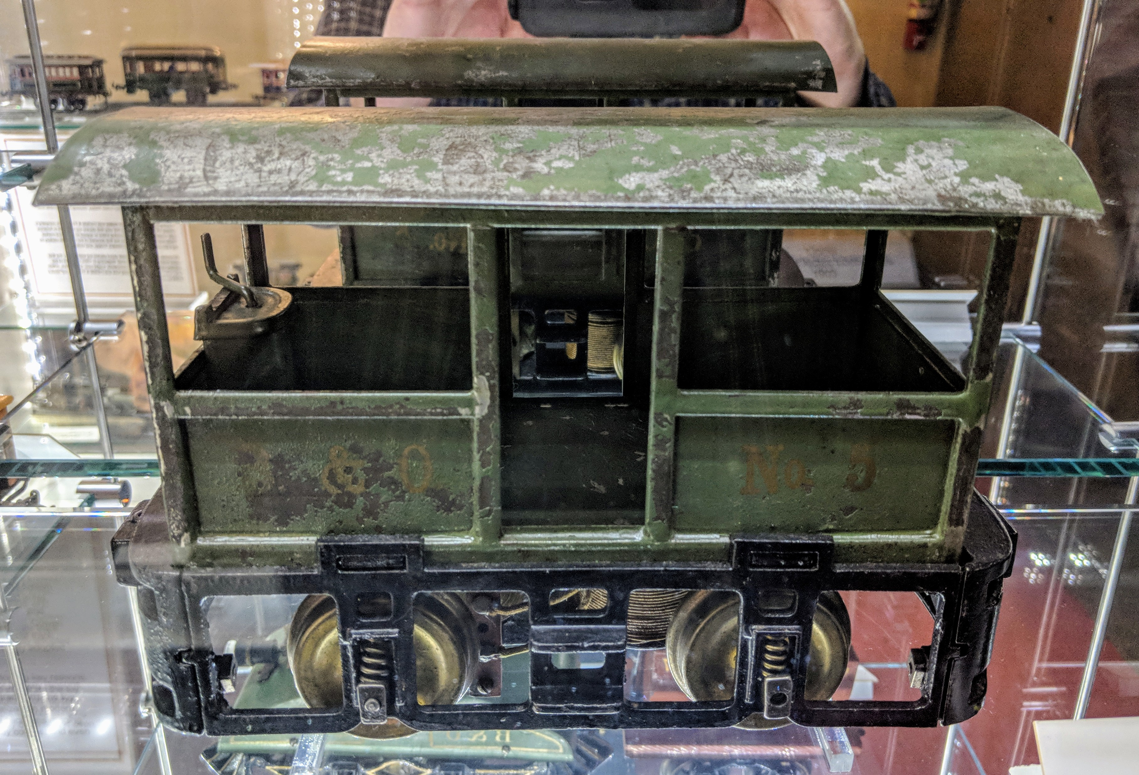 An early Lionel model locomotive at the California State Railroad Museum, made in 1903. Photo by Jim Heaphy.